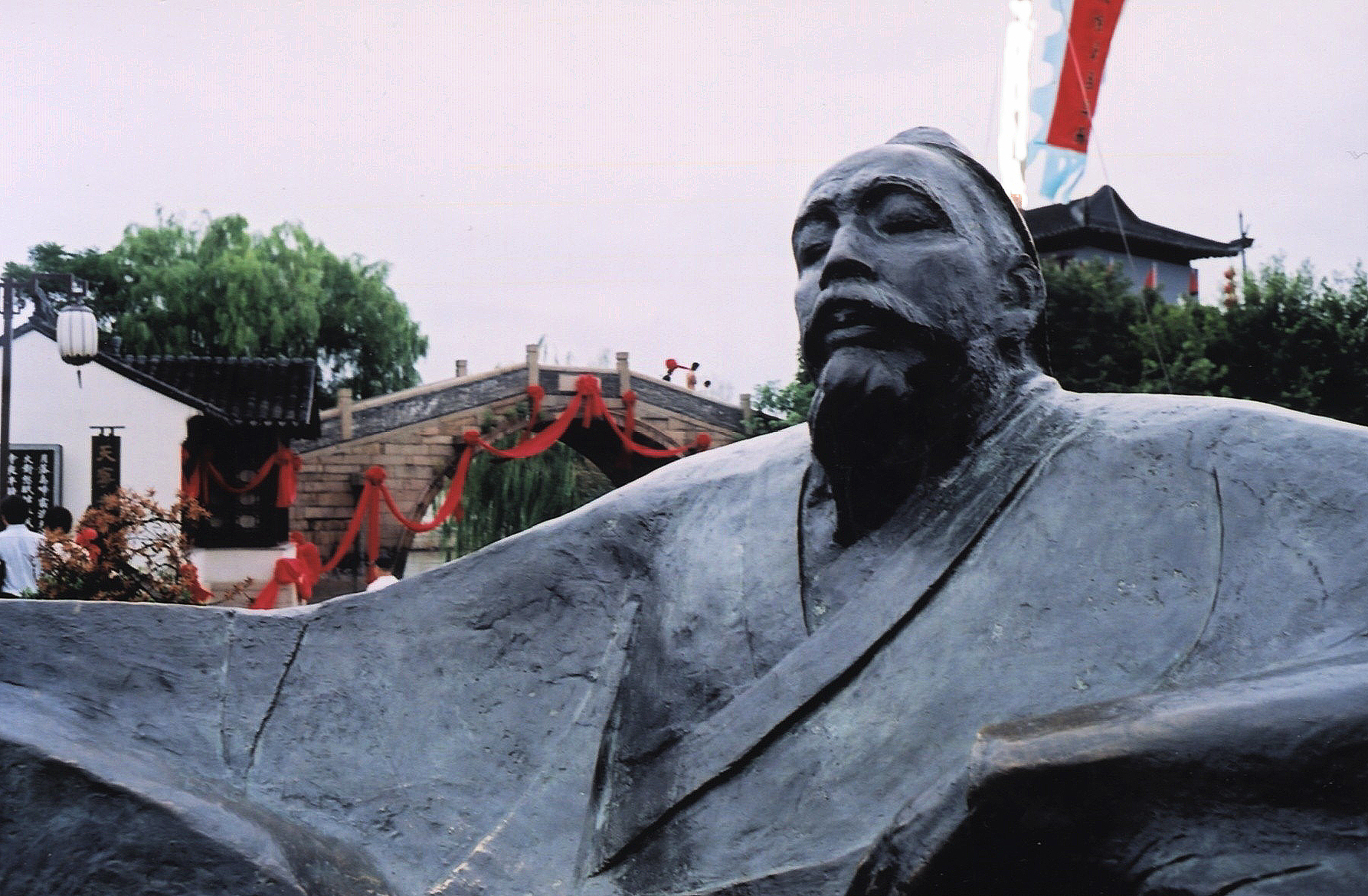 Tang dynasty poet Zhang Ji, with the Hanshan Temple and Maple Briege at background 苏州楓橋 唐代诗人张继雕像